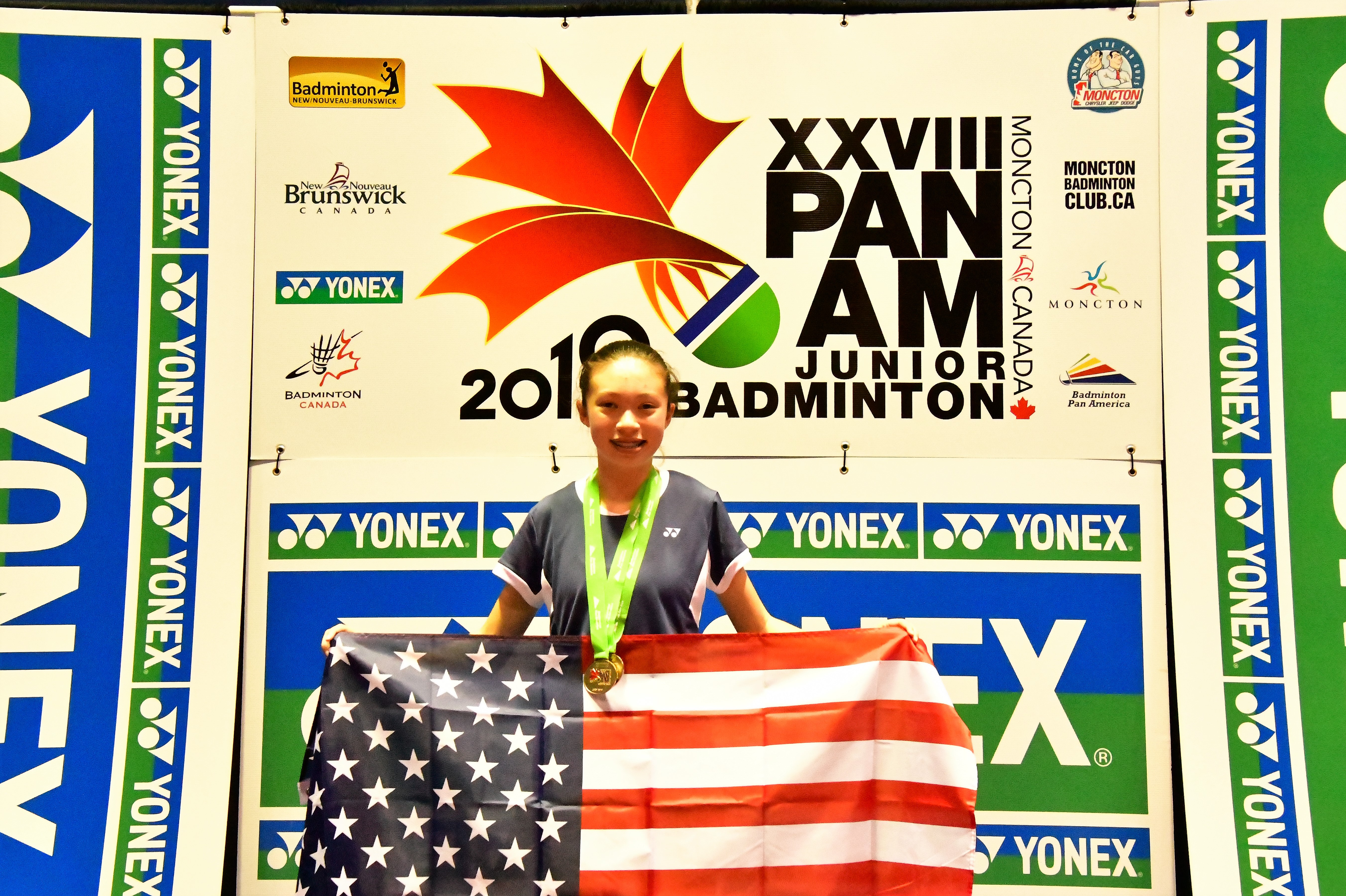 Gold Medal Winner at 2019 Pan Am Games in Moncton, Canada. Girl's Singles and Doubles Under 15